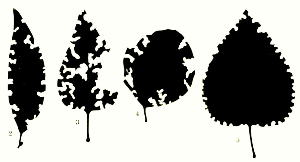 Derivate of Franz Heikertinger: "Otiorhynchus crataegi Germ-. und mastix Ol, zwei Zierstrauchschädlinge der Wiener Gärten" in Verhandlungen der Zoologisch-Botanischen Gesellschaft in Wien 73. Band, Wien 1932 Damage on leafes in garden by Otiorhynchus crataegi, 2. Ligustrum 3.,5 Syringa 4. Symphoricarpos